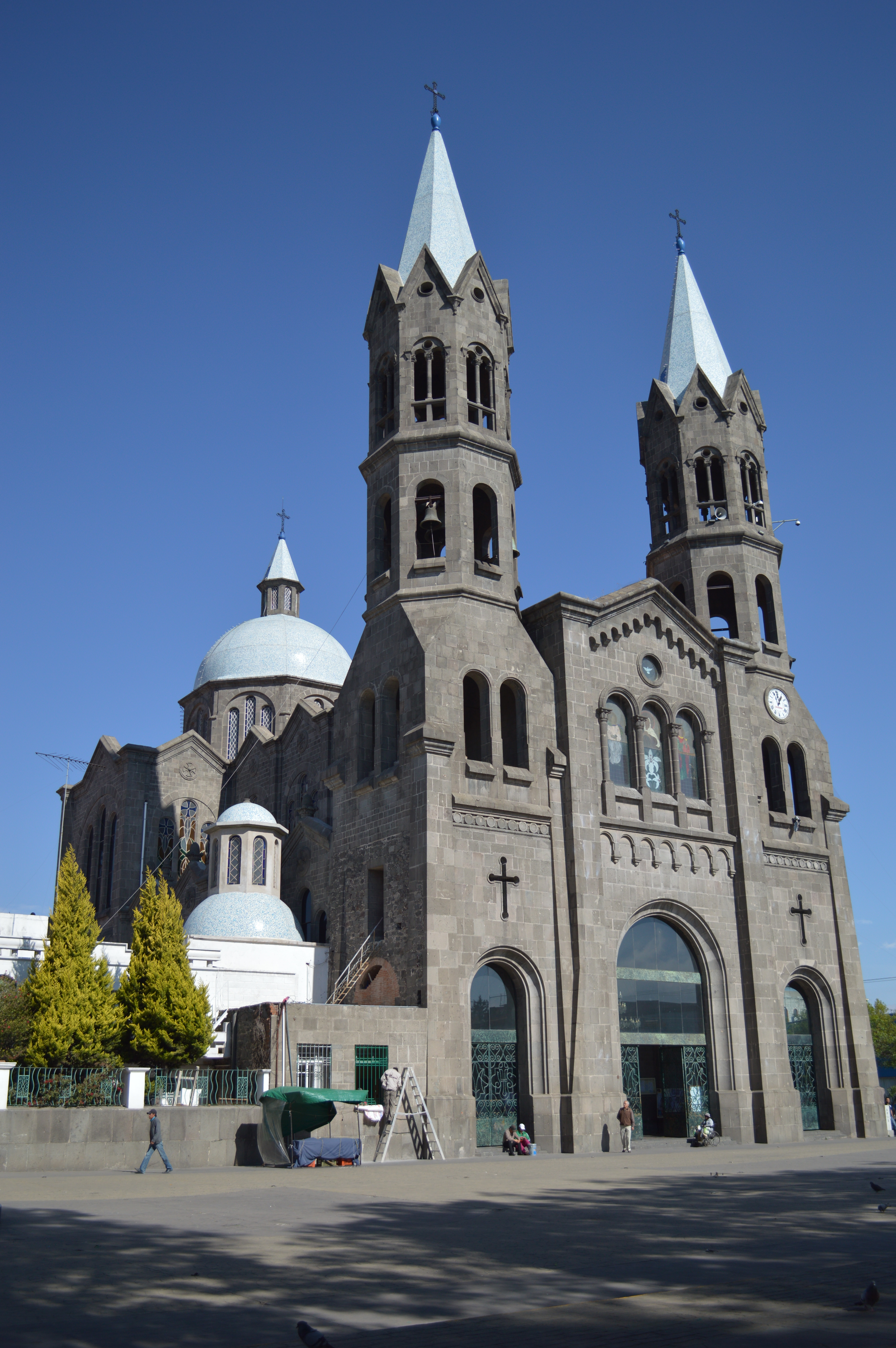 Basilica and Parish of Santa Maria de la Misericordia in Apizaco, Tlaxcala, Mexico